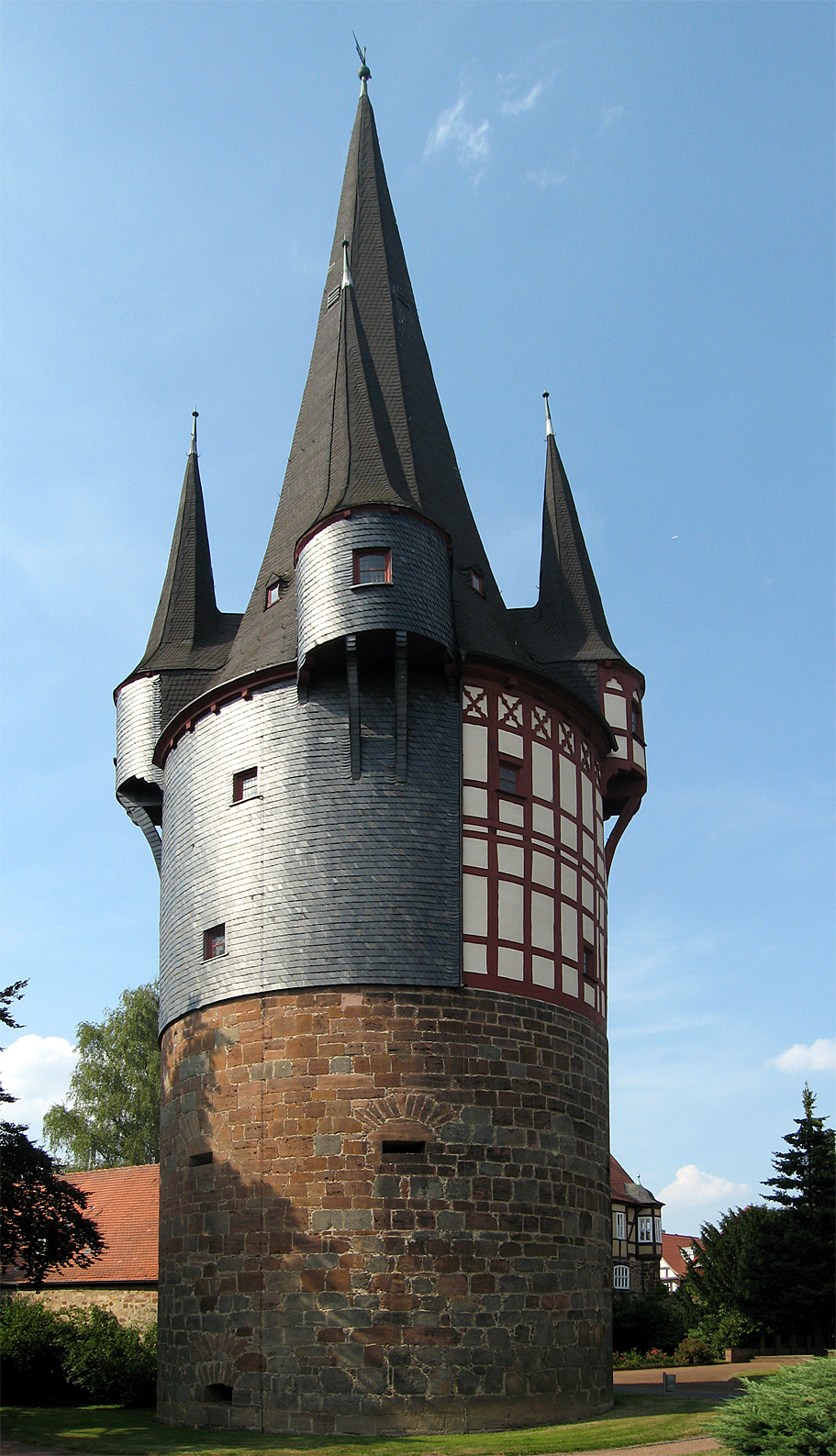 The Junker-Hansen-Tower, the town's landmark of Neustadt, is build in 1480 and is today one of highest Timber framing buildings in Europe. The tower is 50m high an has a diameter of 13 m.